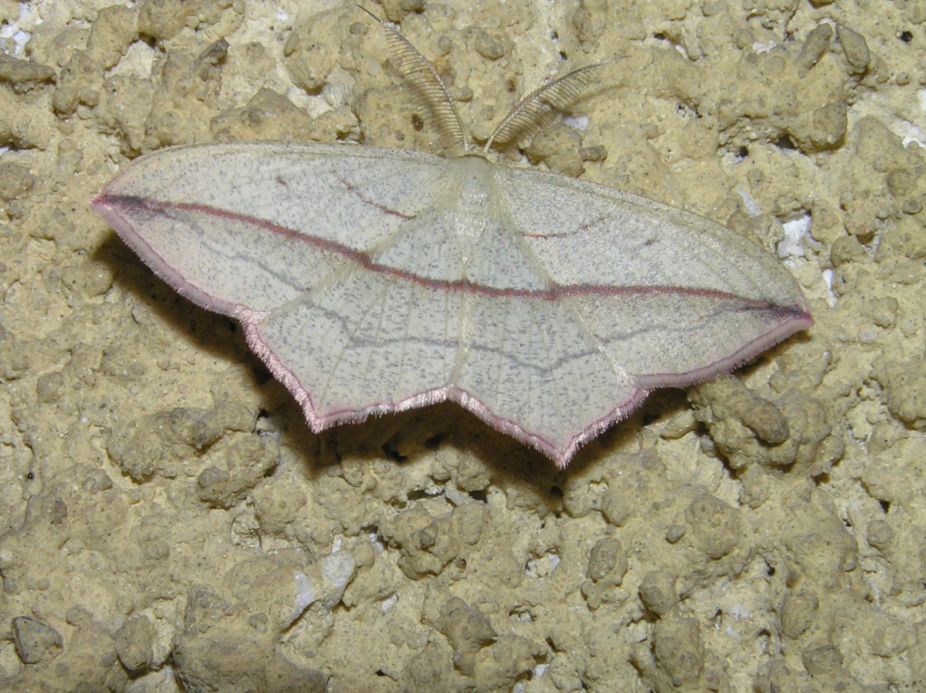 Timandra comae A. Schmidt, 1932 (syn: Calothysanis amata) male, Walgina rdestniak -samiec